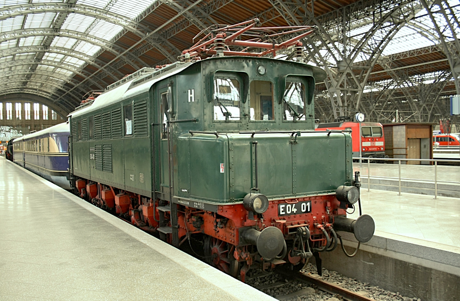 Deutsche Reichsbahn electric locomotive E04 01 at Leipzig Hbf.